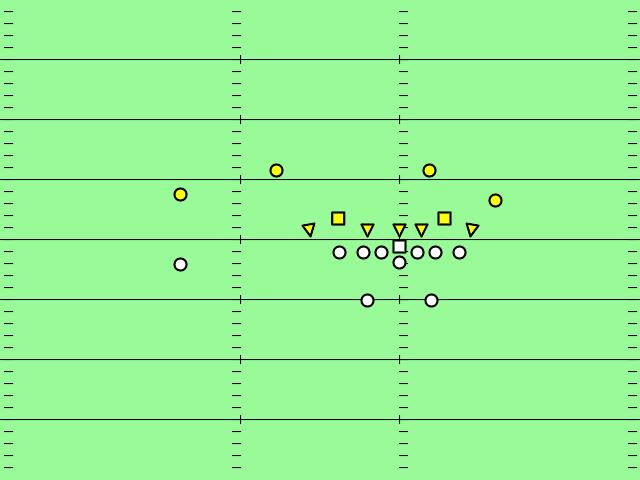 Shows a 5-2 Eagle defense, as it might have been played in the early 1950s, against a typical offense of the day. This is actually a stylized representation of a play seen in video of Detroit - Cleveland, NFC championship, 1953. The code used to make this image is custom Perl.